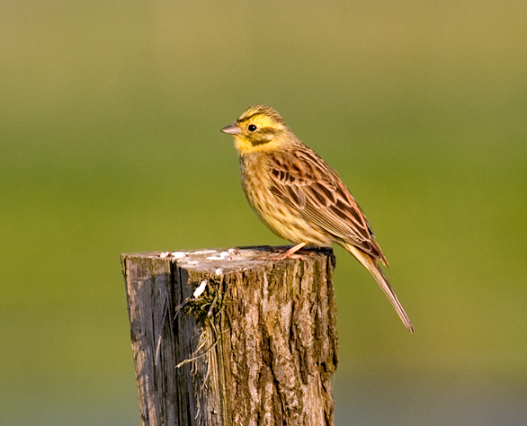 Yellowhammer